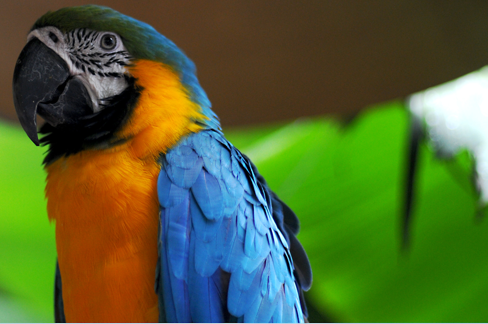 A Blue-and-yellow Macaw at Jungle Island, Miami, Florida, USA.